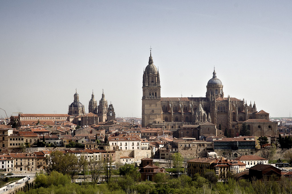 View of Salamanca, Spain